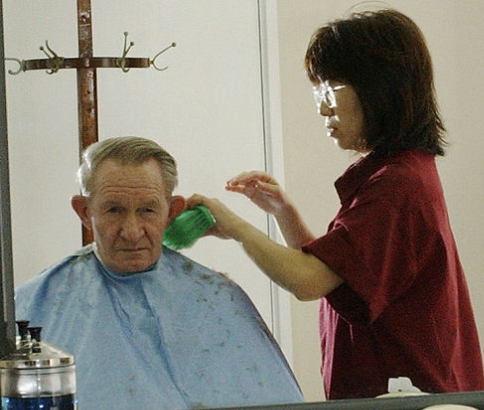 Charles Robert Jenkins getting haircut in Zama, Japan (September 13, 2004)